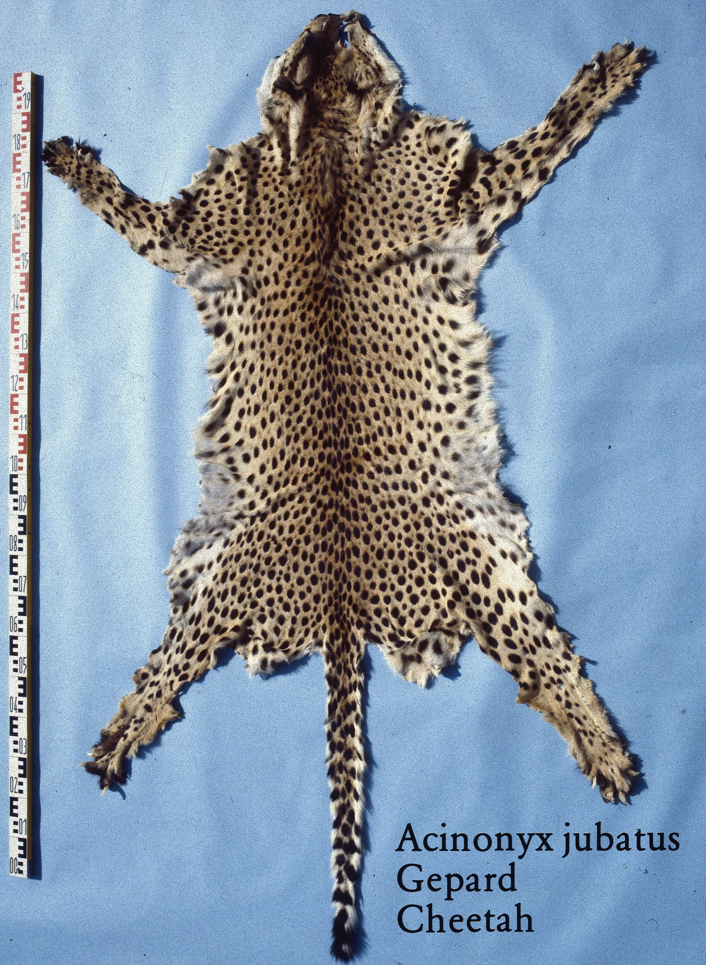 Cheetah fur skin (Acinonyx jubatus). Fur skin collection, Bundes-Pelzfachschule, Frankfurt/Main, Germany